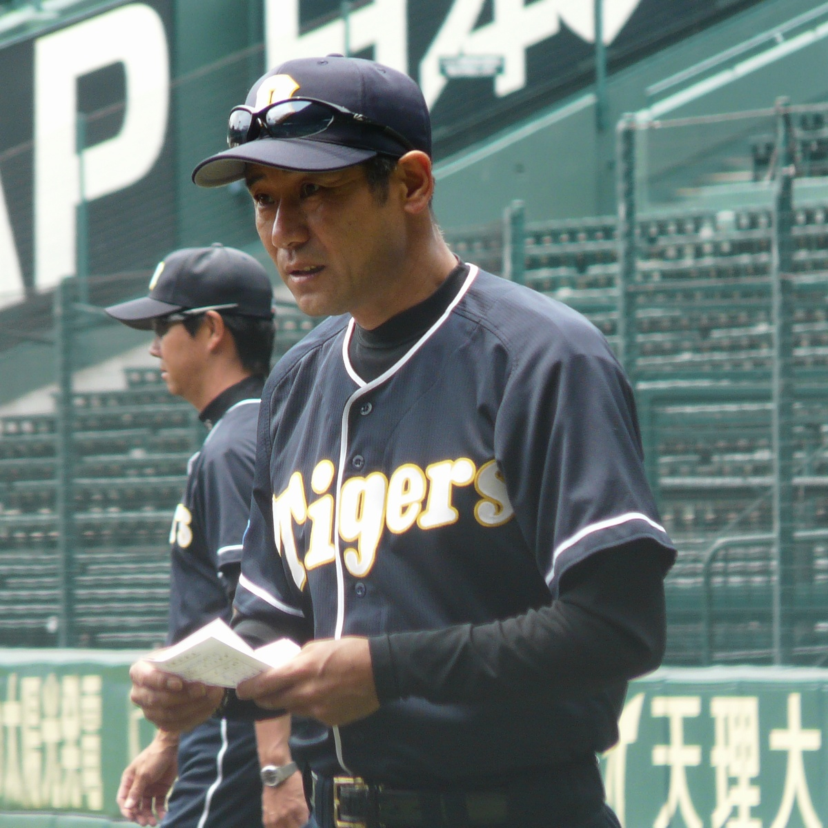 Haruki Yoshitake, coach of the Hanshin Tigers, at Hanshin Koshien Stadium.